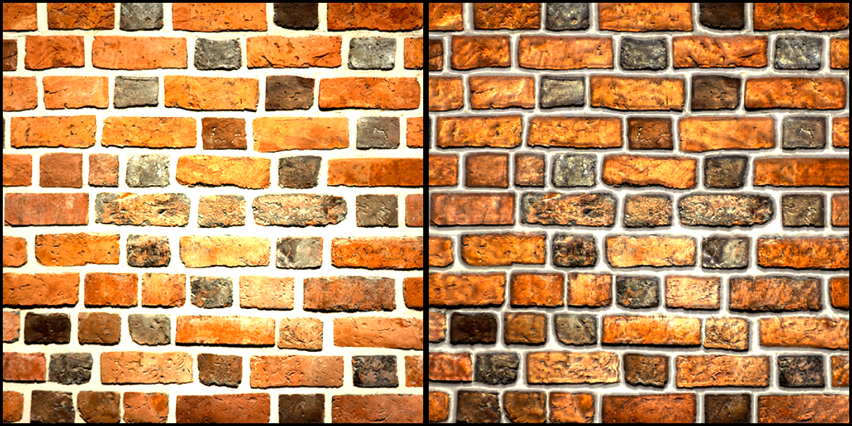 Difference bettween simple lighting and normal mapping technique